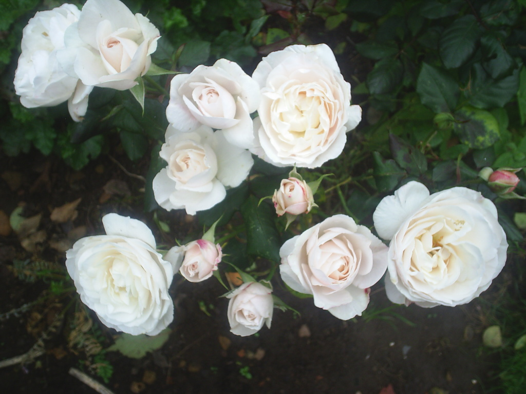 Picture of the floribunda rose cultivar 'English Miss'.